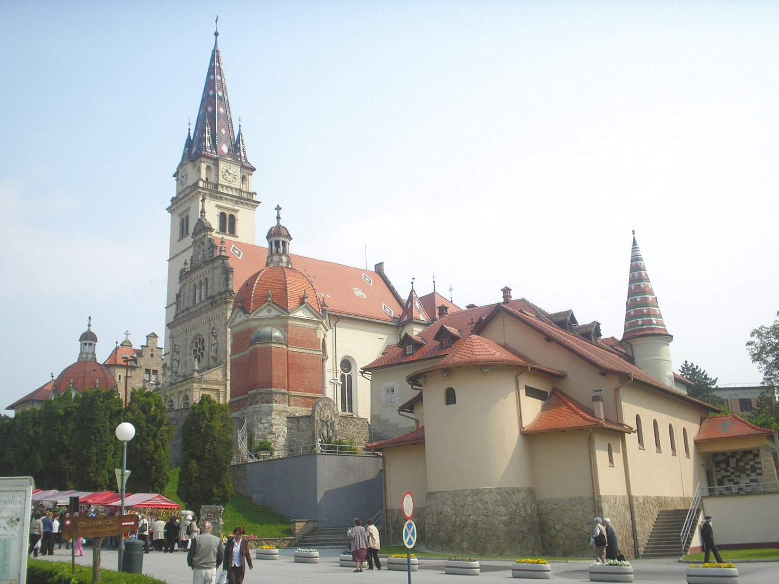 Basilica of Blessed Virgin Mary, Marija Bistrica, CroatiaHrvatski: Bazilika Blažene Djevice Marije u Mariji Bistrici